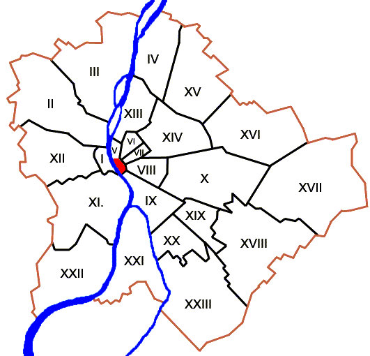 The Downtown of Budapest. Created from Image:Budapest districts.png